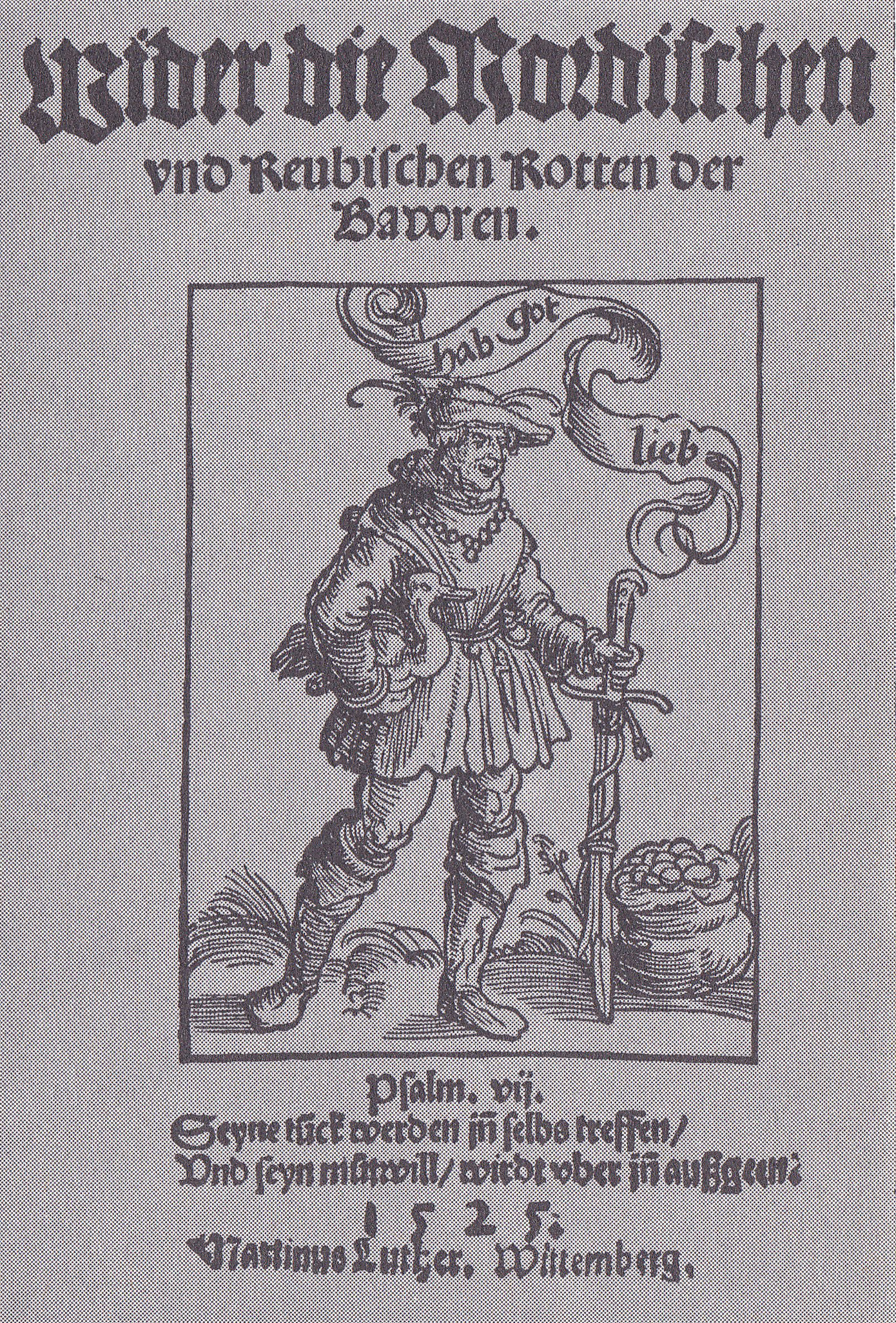 Title page to Luther's pamphlet against the rebellious peasants, Wider die Mordischen vnd Räubischen Rotten der Bawren, Nürnberg 1525.